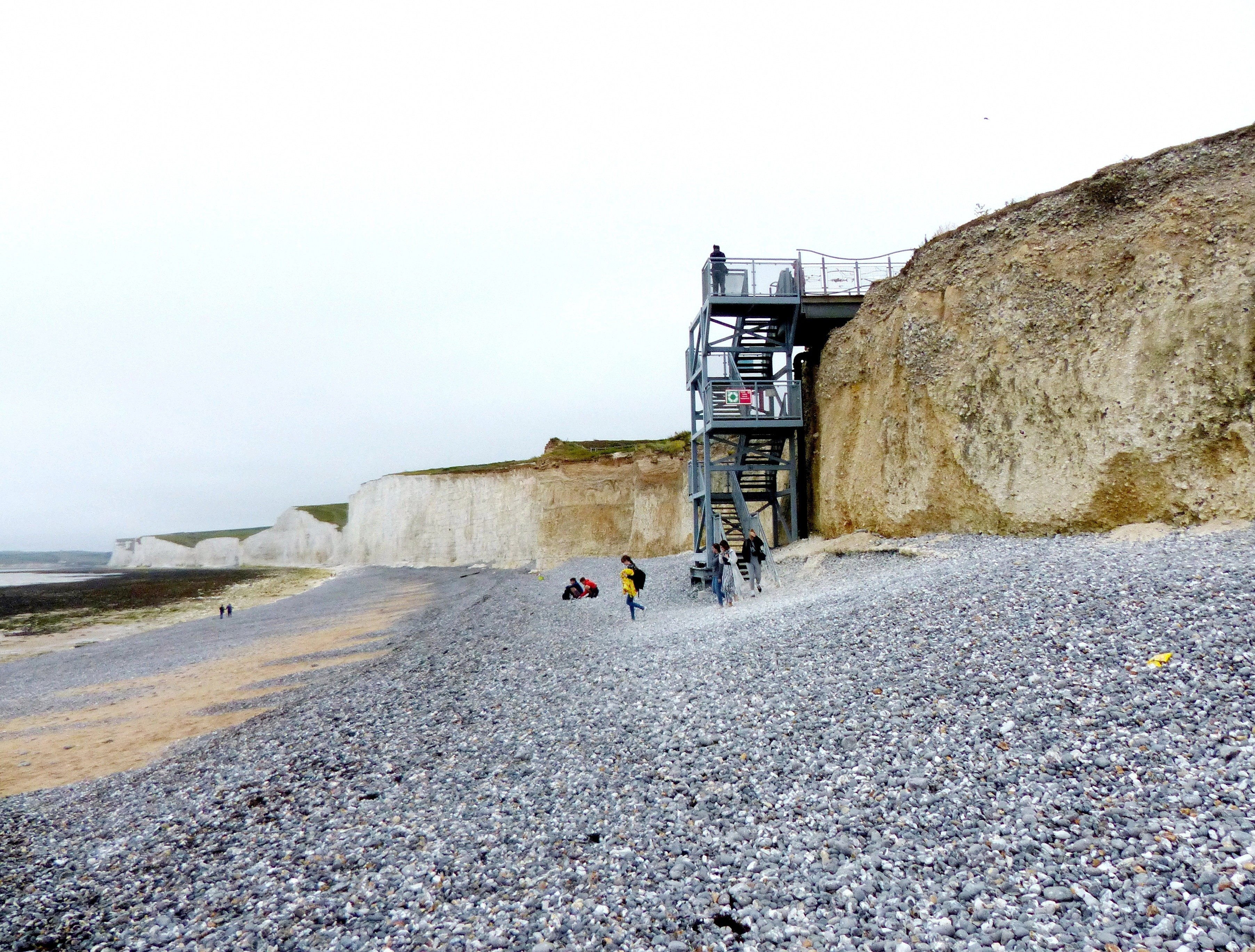 The steps down to the beach at Birling Gap, East Sussex. Birling Gap is a few miles to the west of Eastbourne and Beachy Head. Looking west towards Newhaven.